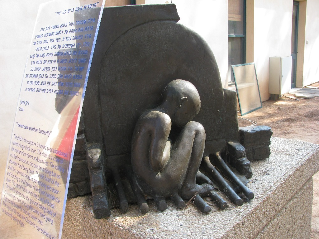 Child Holocaust statue pose is not a natural environment, in the courtyard of Beit Terezin. We can read a phrase from the poem "The Butterfly" by Pavel Friedman.